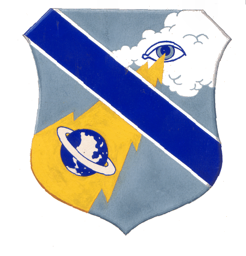 Emblem of the USAAF 91st Strategic Reconnaissance Wing